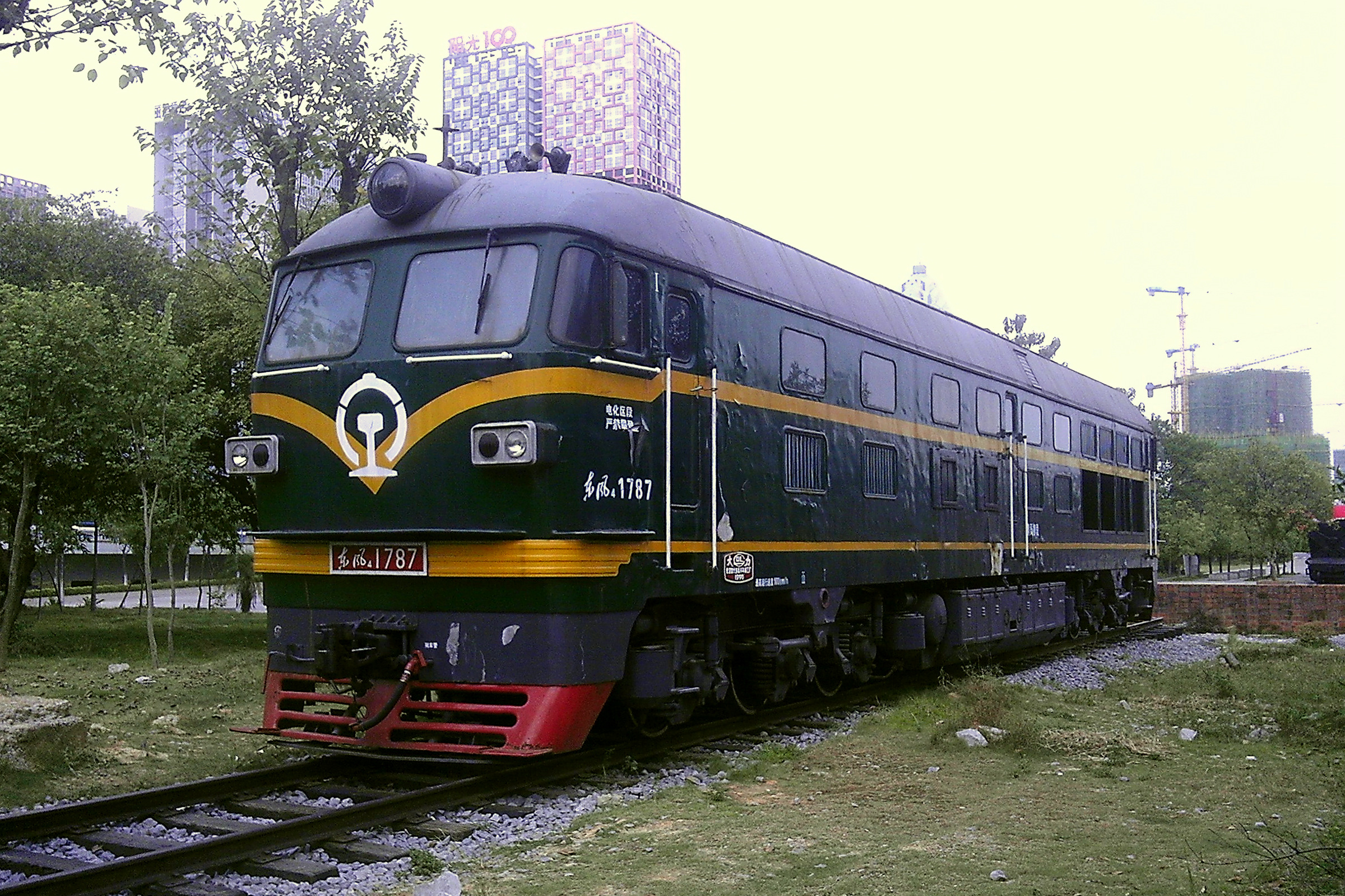 China Railways DF4B 1787 in Liuzhou Industrial Museum.